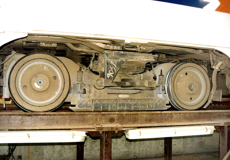 The bogie on a SEPTA Kawasaki car in the Philadelphia shops. Photo by Sean Lamb (User:Slambo) 1993.